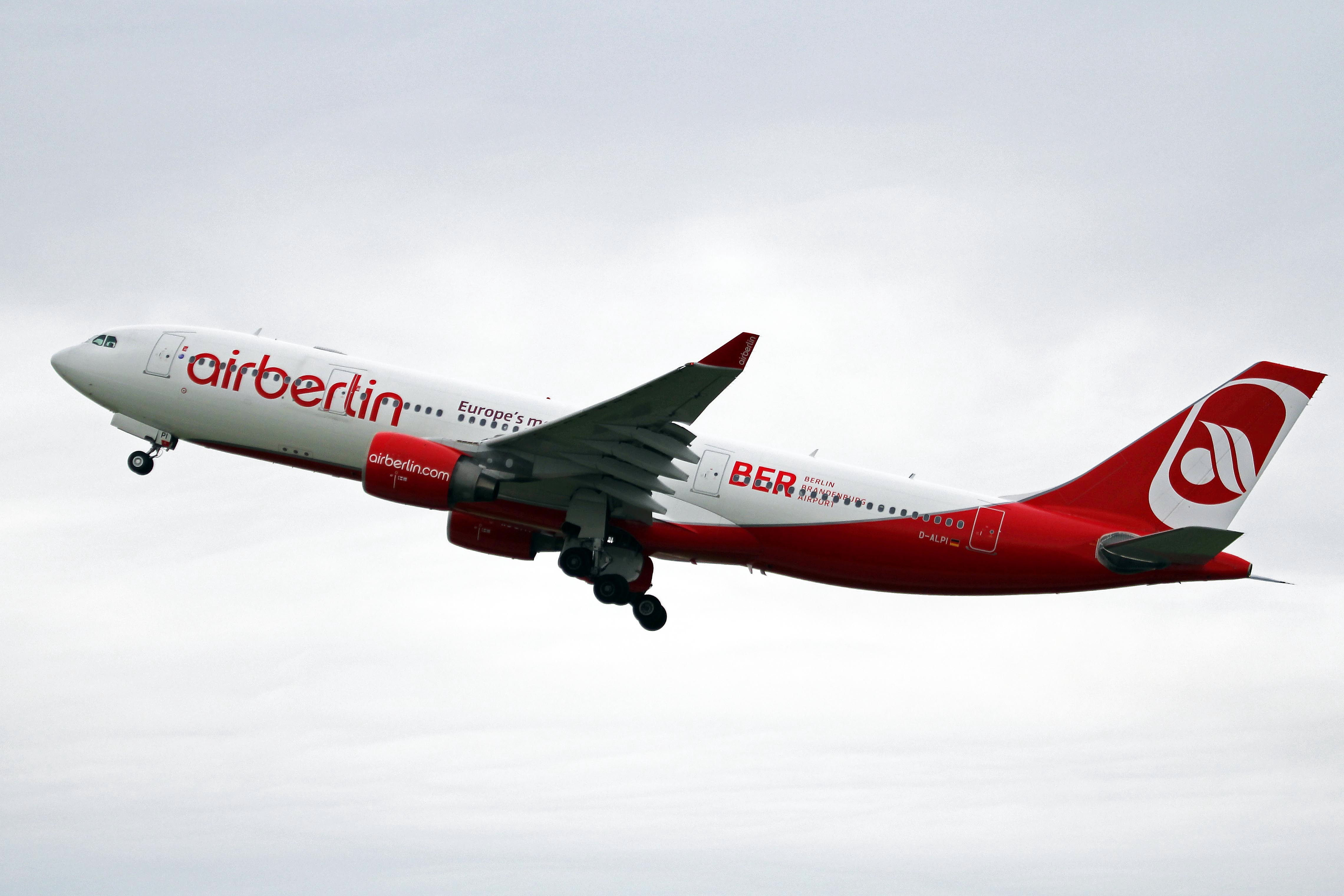 With additional 'BER, Berlin Brandenburg Airport' titles